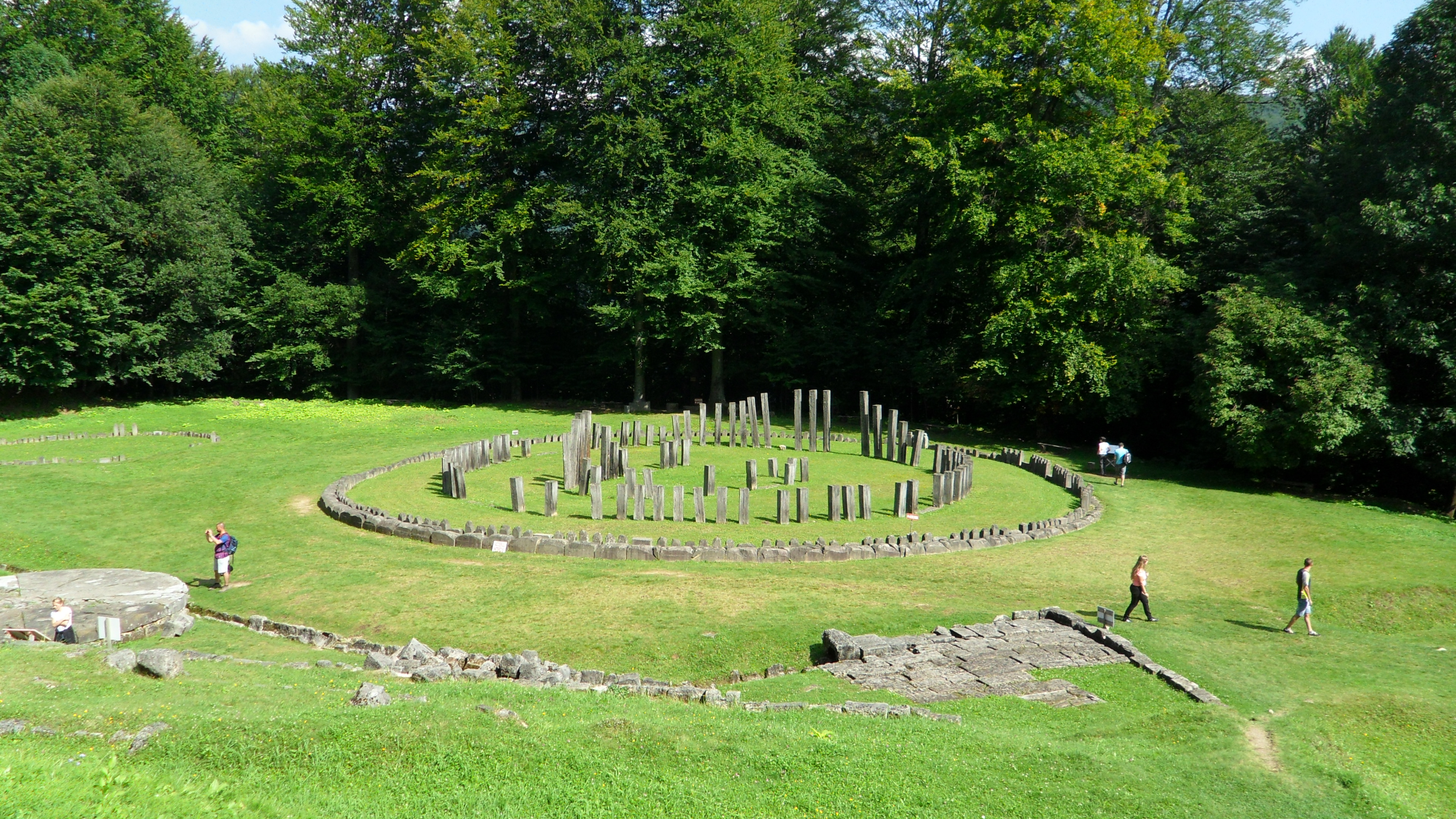 Sarmizegetusa Regia, also Sarmisegetusa, Sarmisegethusa, Sarmisegethuza, Ζαρμιζεγεθούσα (Zarmizegethoúsa) or Ζερμιζεγεθούση (Zermizegethoúsē), was the capital and the most important military, religious and political centre of the Dacians. Erected on top of a 1,200 metre high mountain, the fortress was the core of the strategic defensive system in the Orăştie Mountains (in present-day Romania), comprising six citadels. Sarmizegetusa Regia was the capital of Dacia prior to the wars with the Roman Empire.